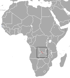 Ansell's Shrew (Crocidura ansellorum) range